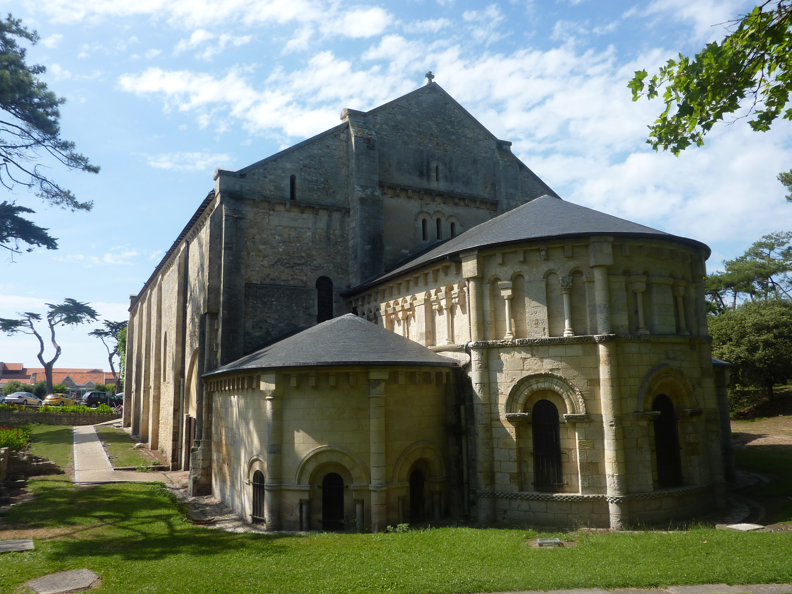 Basilique Notre-Dame-de-la-fin-des-Terres in Soulac-sur-Mer, Gironde, France